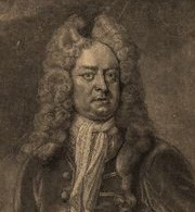 George Carpenter, 1st Baron Carpenter (1657-1731) by John Faber Jr, after Johan van Diest, about 1719 or soon after.